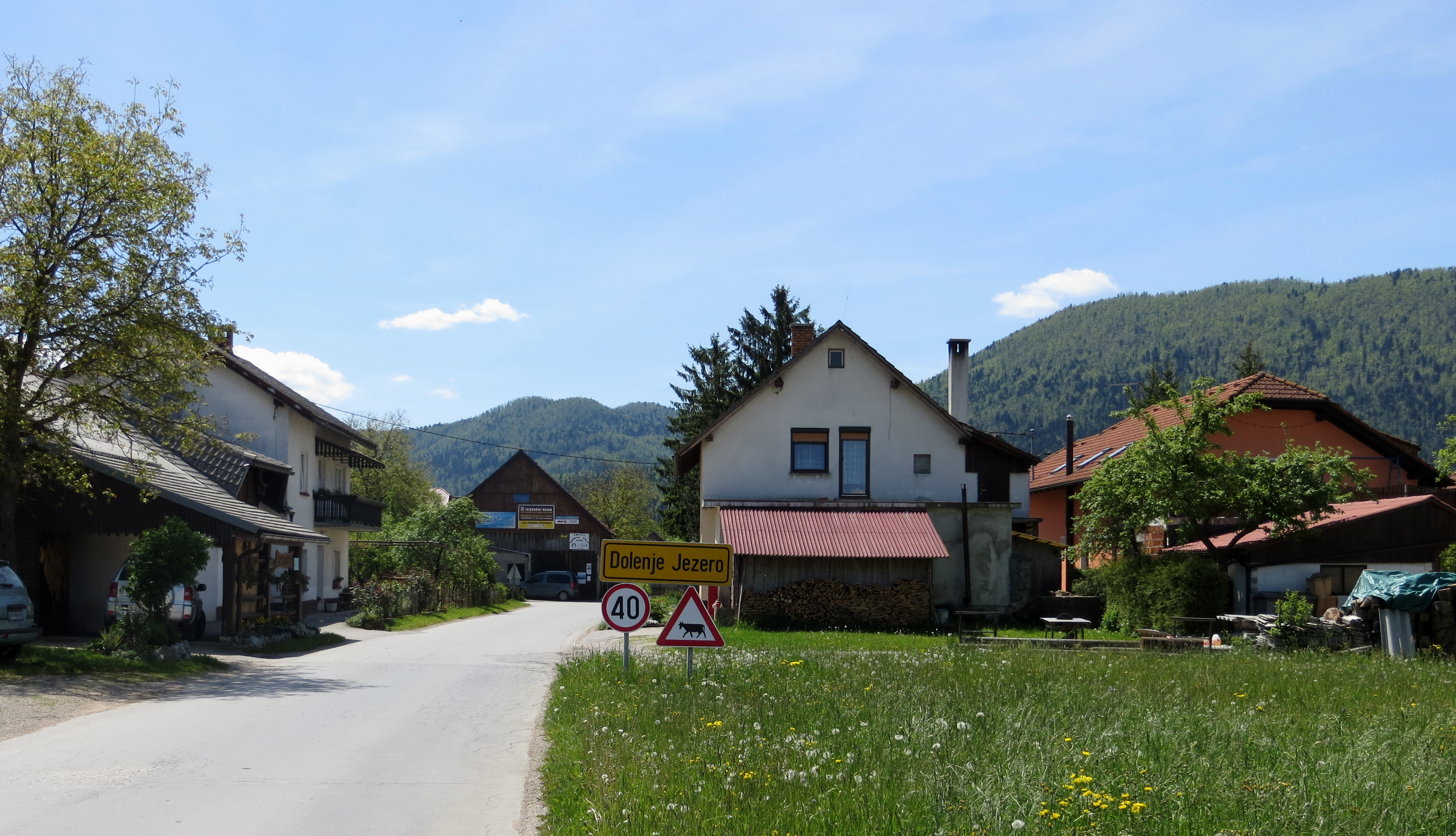 Dolenje Jezero, Municipality of Cerknica, Slovenia